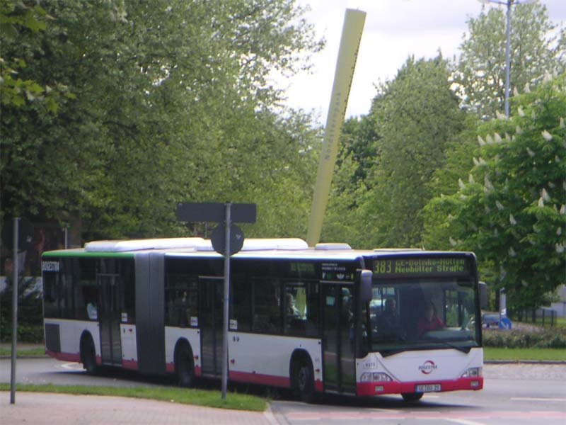 A bus line 383 of the latest generation (2003) BOGESTRA at the roundabout at North Star Park in Gelsenkirchen.